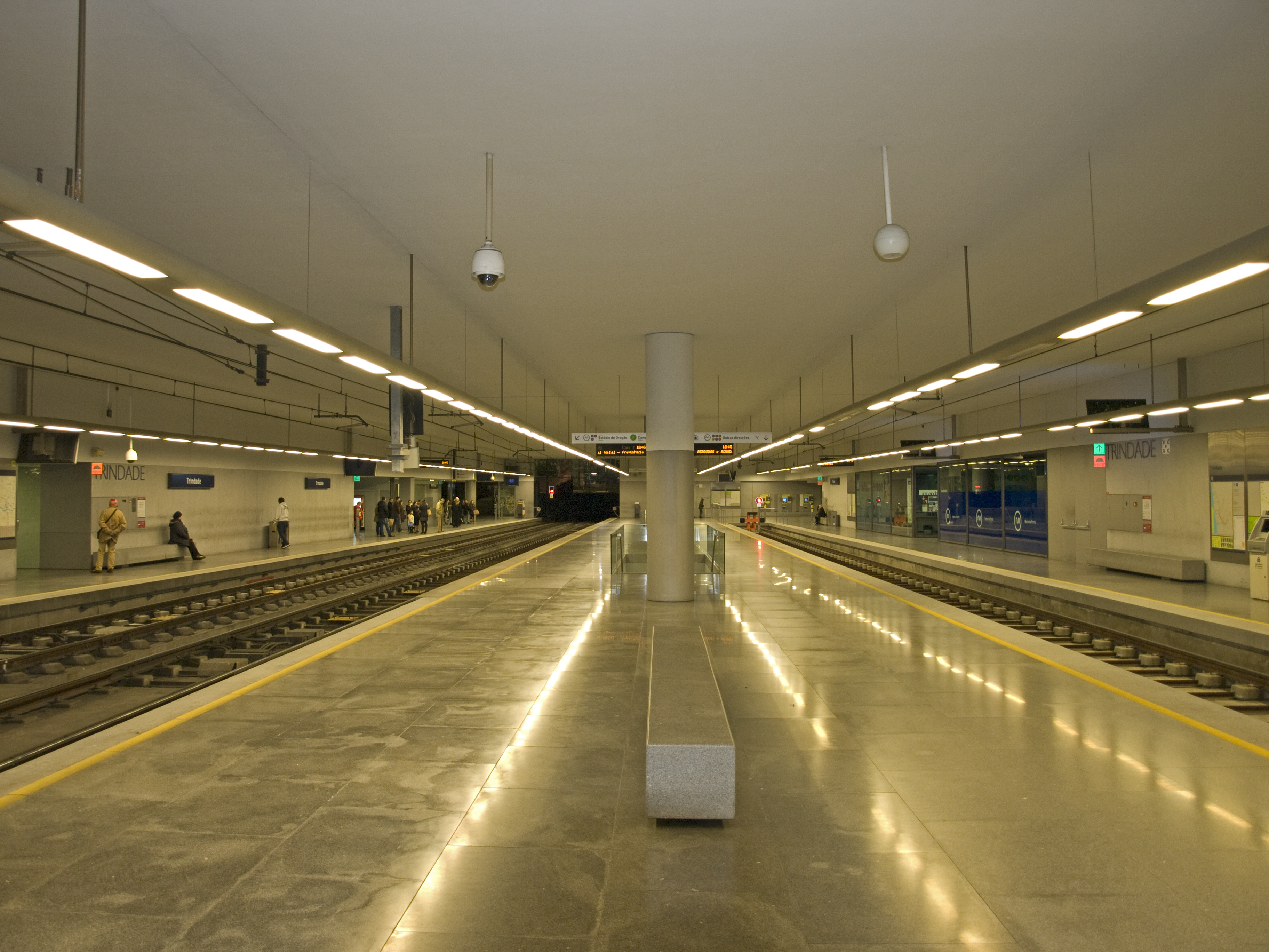 Platforms of Trindade metro station, Porto, Portugal